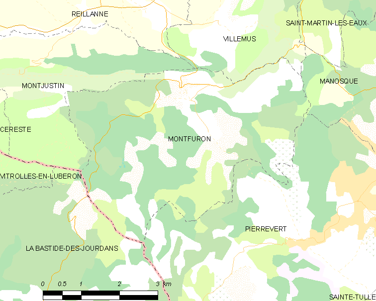 Map commune FR insee code 04128.png Légende